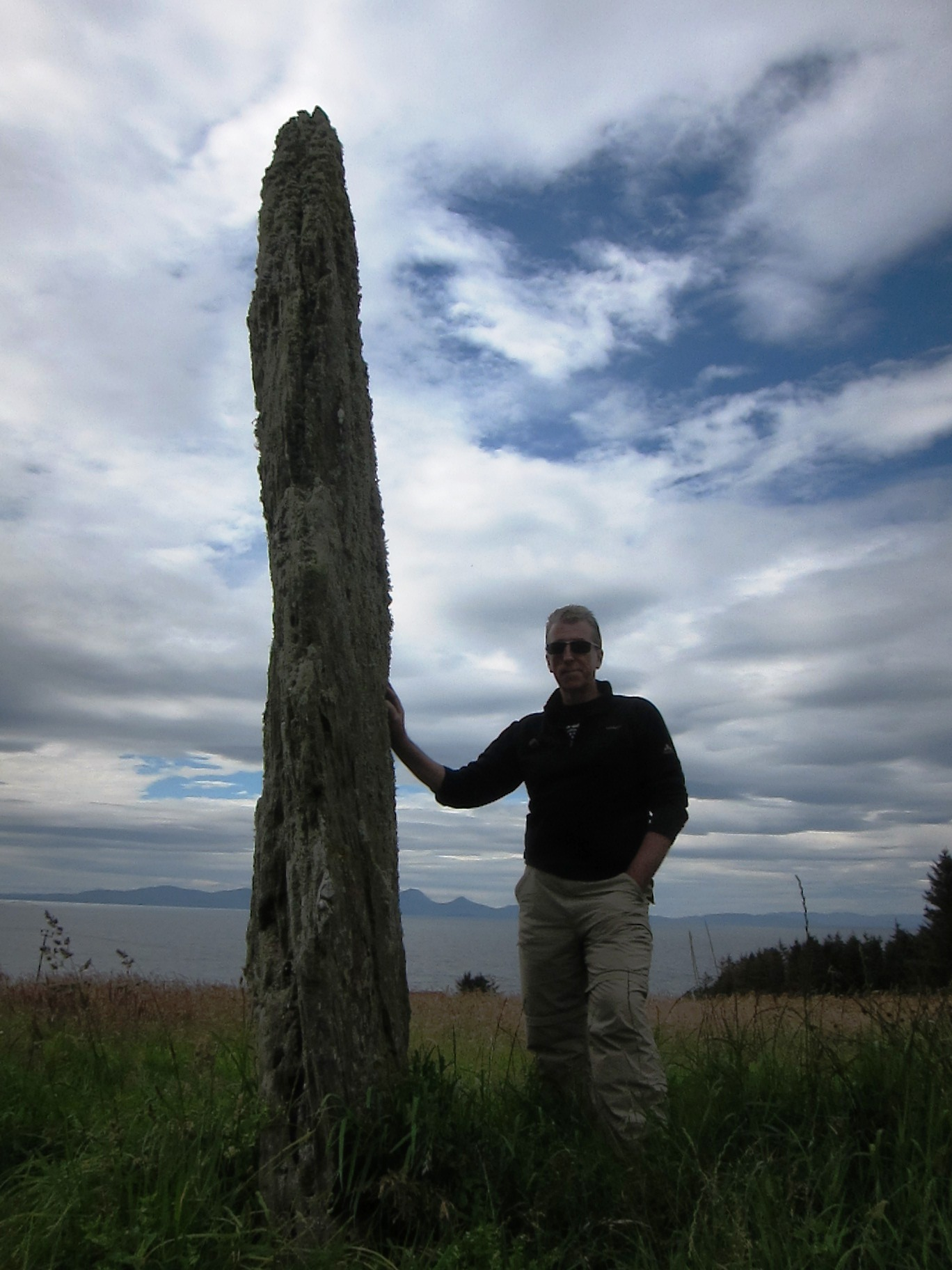 The tallest of the Menhir at Ballochroy